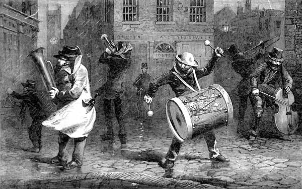 H.G. Hine’s The Waits at Seven Dials portrays a group of “Christmas waits” or street musicians, including a trombonist. After the Municipal Corporations Act of 1835, there were no more official waits as funded by British municipalities, but ad hoc musicians would often form at Christmas time in hopes of raising money. London, England.